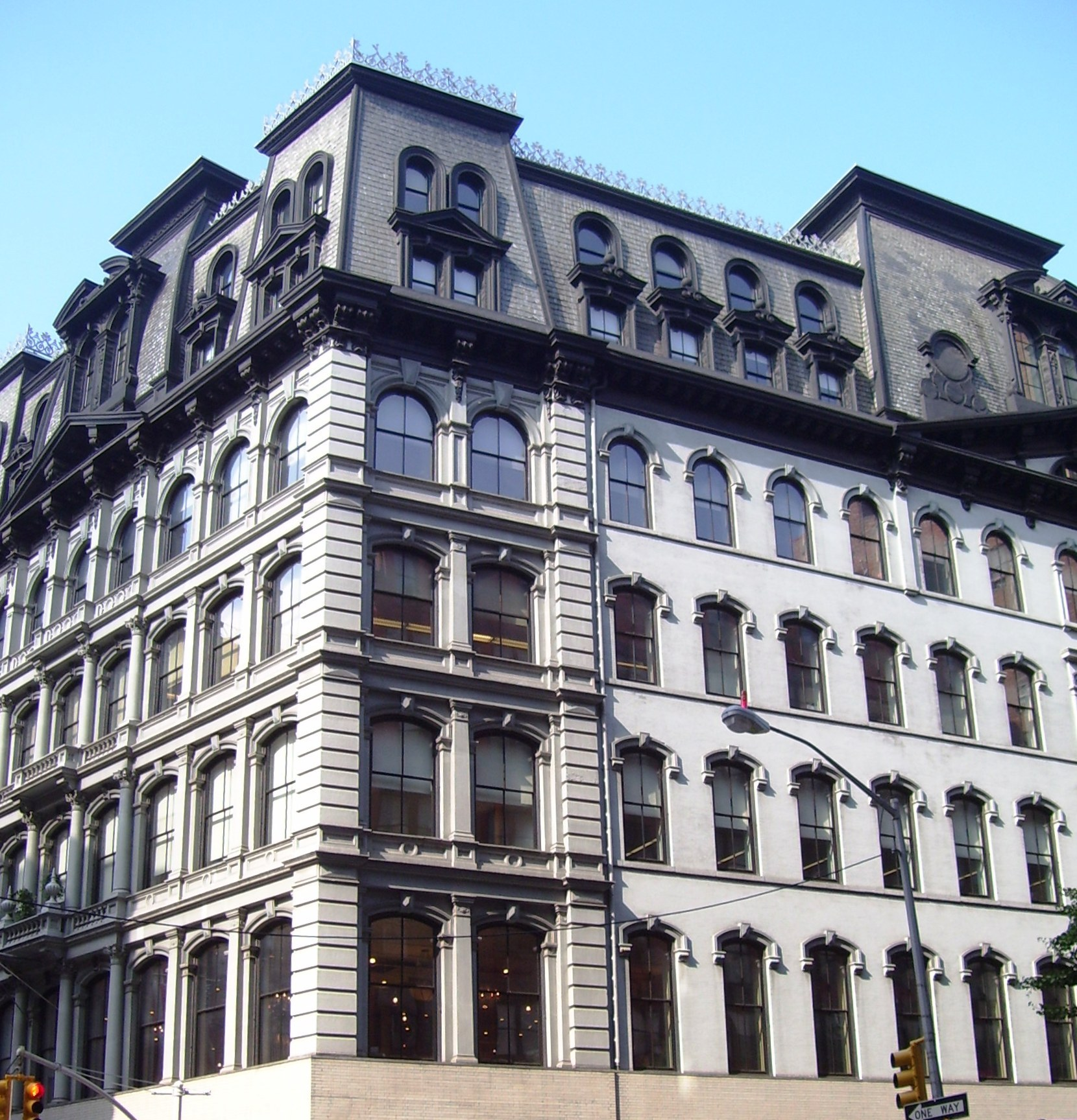 881-887 Broadway at at 19th Street in the Flatiron District of Manhattan, New York City lies within the Ladies Miles Historic District. The building takes up the entire block of 19th Street to Fifth Avenue, where its address is 115 Fifth Avenue. Originally built as the Arnold Constable Dry Goods Store in 1868-1869 and extended in 1873 and 1877, the building was designed by Griffith Thomas. The Broadway facade, seen here, is marble, while the Fifth Avenue facade is cast iron. The building features a 2-story mansard roof, and is currently used on the Broadway side by ABC Carpets, and on the Fifth Avenue side by a number of retailers, including Victoria's Secret.